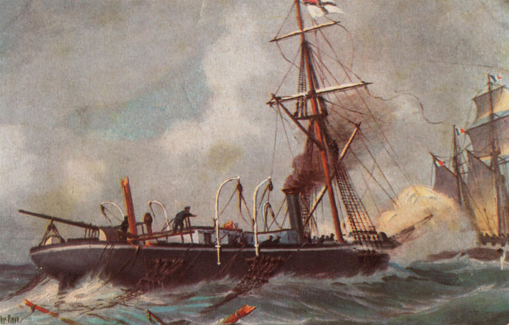 The German gunboat SMS Meteor (launched 1865) in combat with the French Bouvet near Havana in 1870, painted by Christopher Rave.